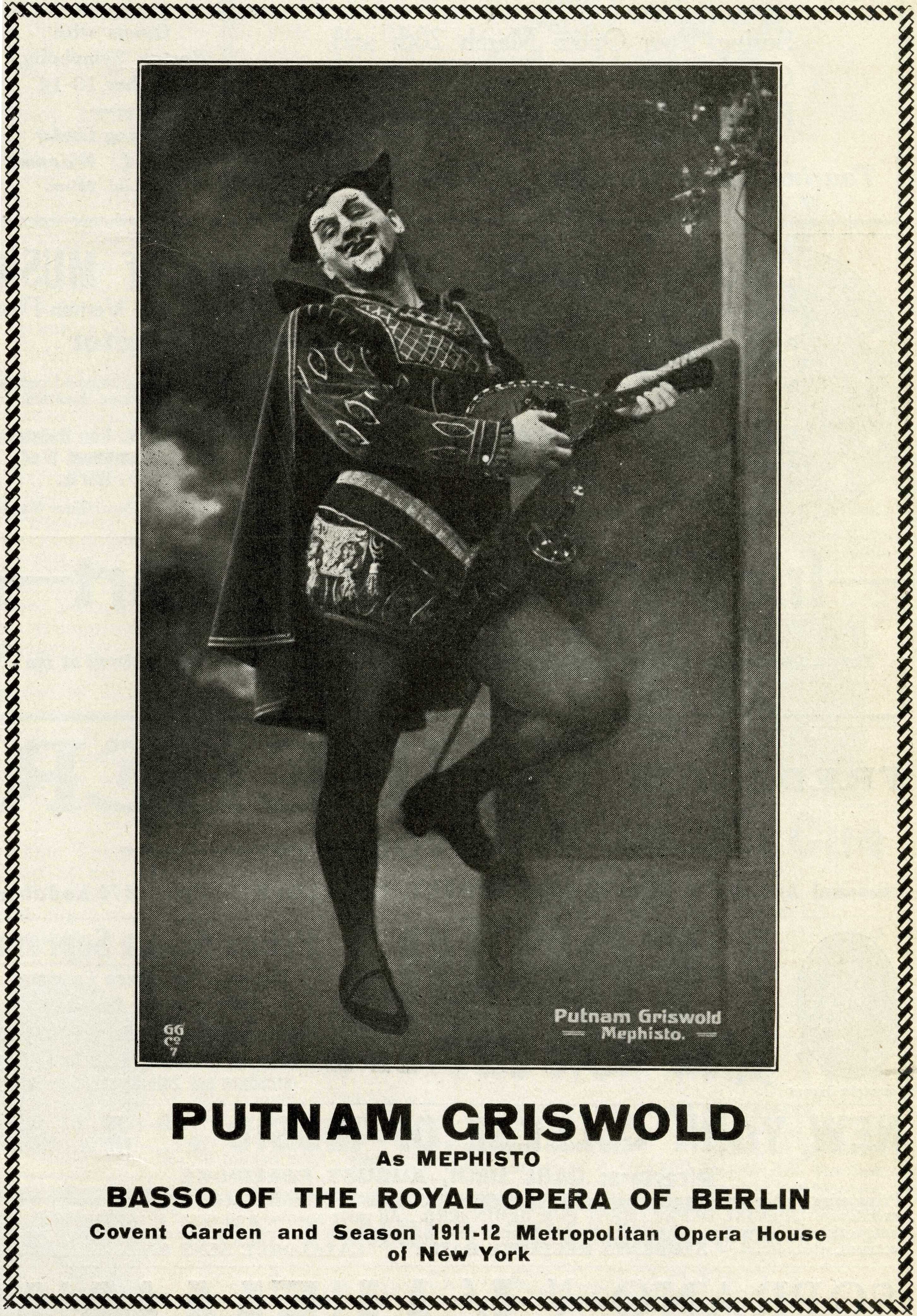 Advertisement showing Putnam Griswold as Mephisto.